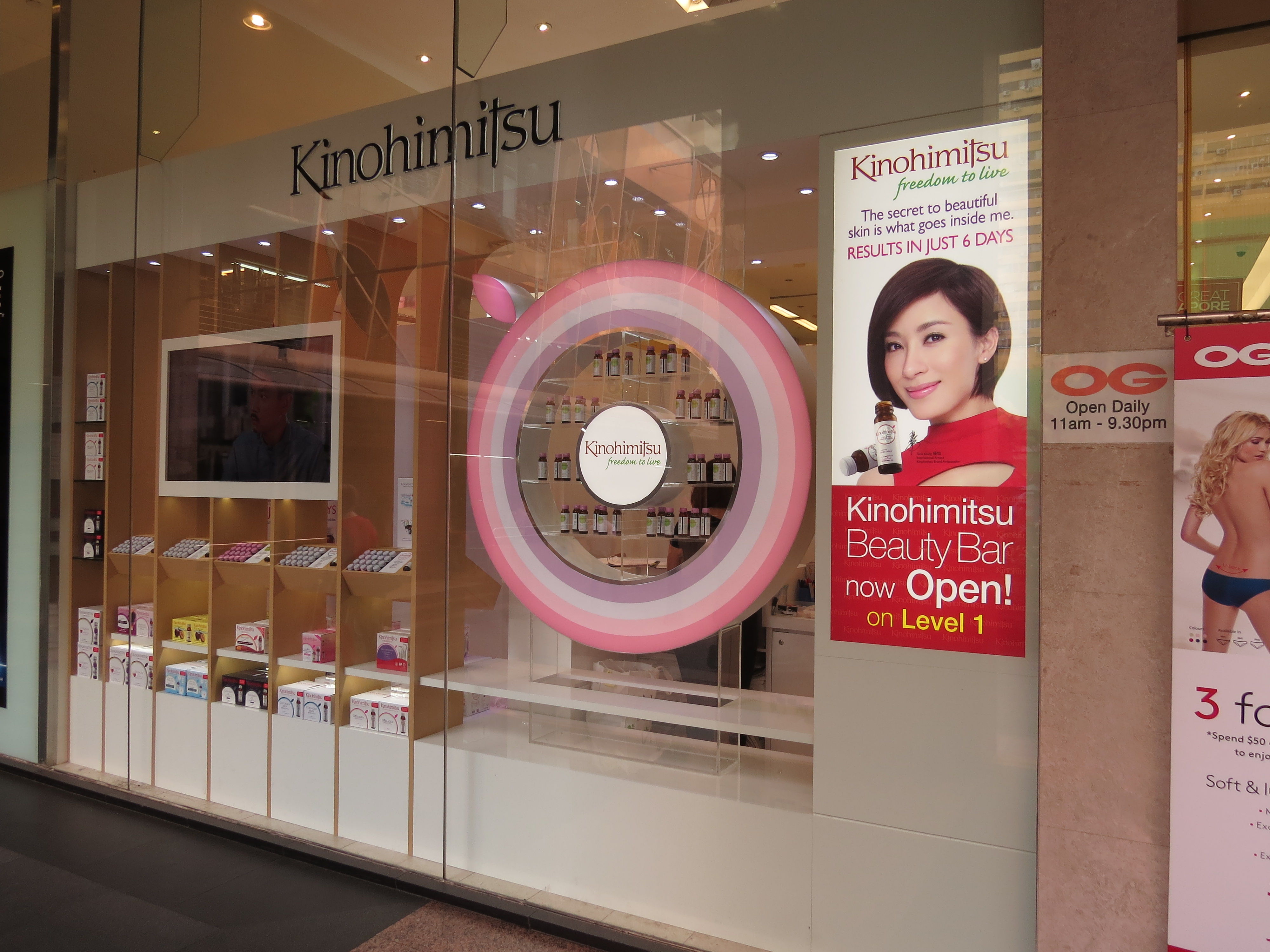 Kinohimitsu Beauty Bar at OG Albert Complex, their brand’s iconic element which can be seen in their beauty counters.